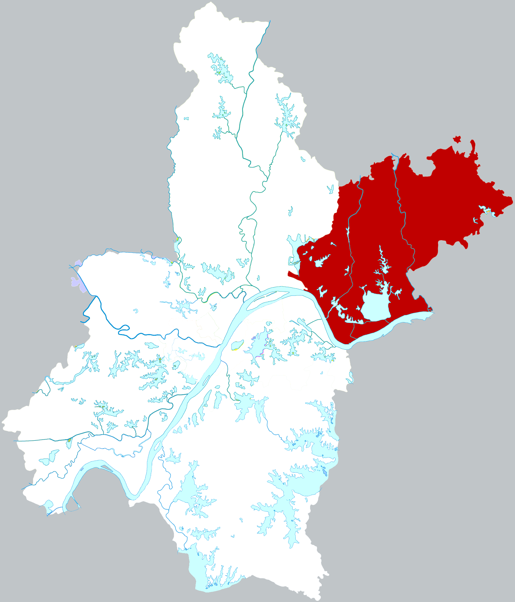 Location of Xinzhou district in Wuhan city, China